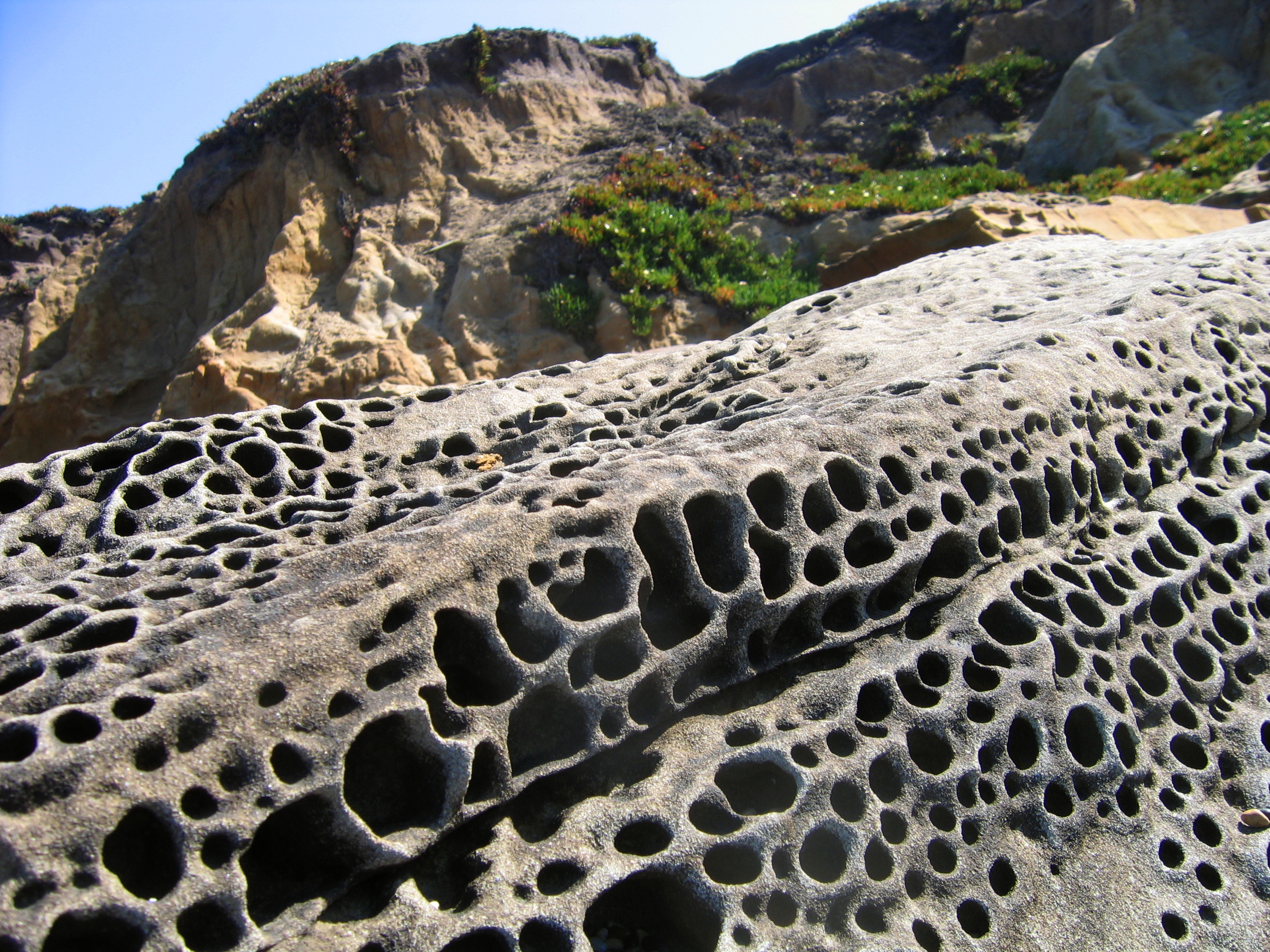 Tafoni at Pebble Beach, San Mateo Coast, California